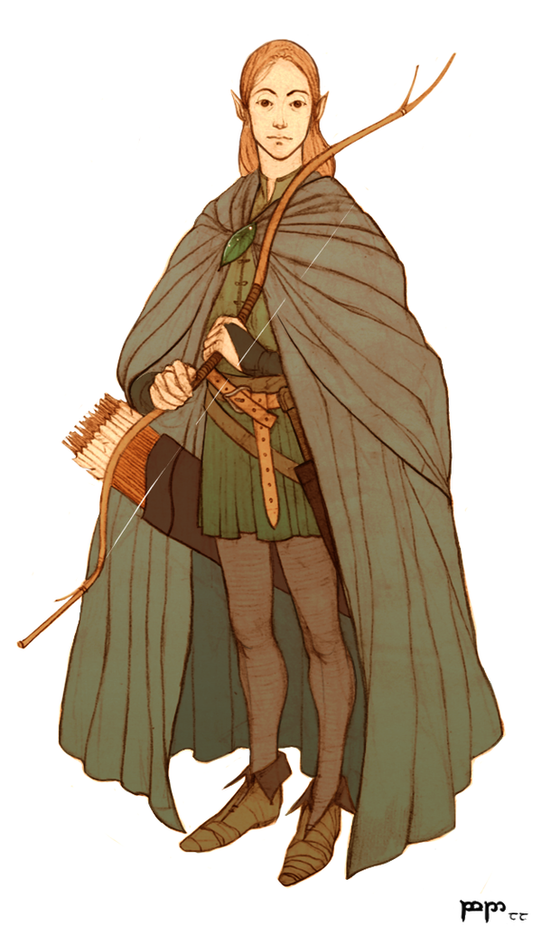 Legolas Greenleaf stands bow at the ready, dressed in a tunic and an elven cloak clasped with a leaf-shaped brooch.